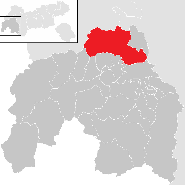 District Landeck